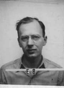 Kenneth I. Greisen Los Alamos wartime security badge.